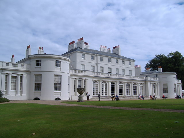 Frogmore House, Windsor Great Park A delightful Royal residence in Windsor Great Park with Victoria & Albert's Mausoleum in the grounds. Open to the public a few days each year.